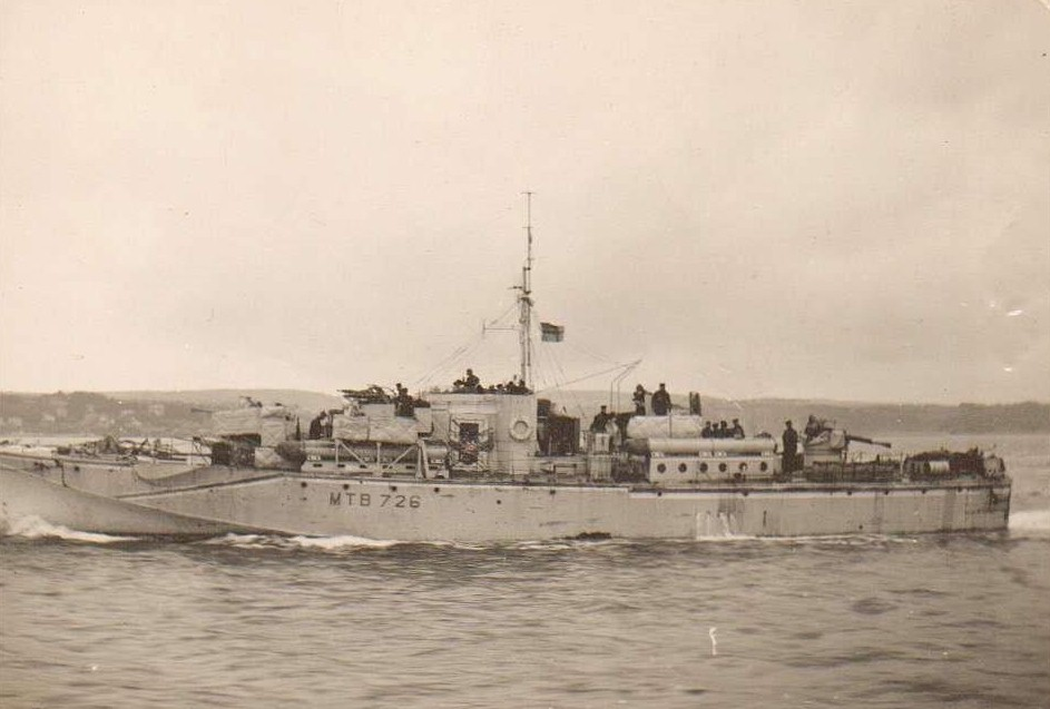 Canadian MTB 726 Fairmile D